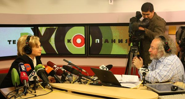 Aleksey Venediktov at Radio "Echo Moskvy" (Echo of Moscow) interviews U.S. Secretary of State Hillary Rodham Clinton in Moscow, Russia, October 14, 2009